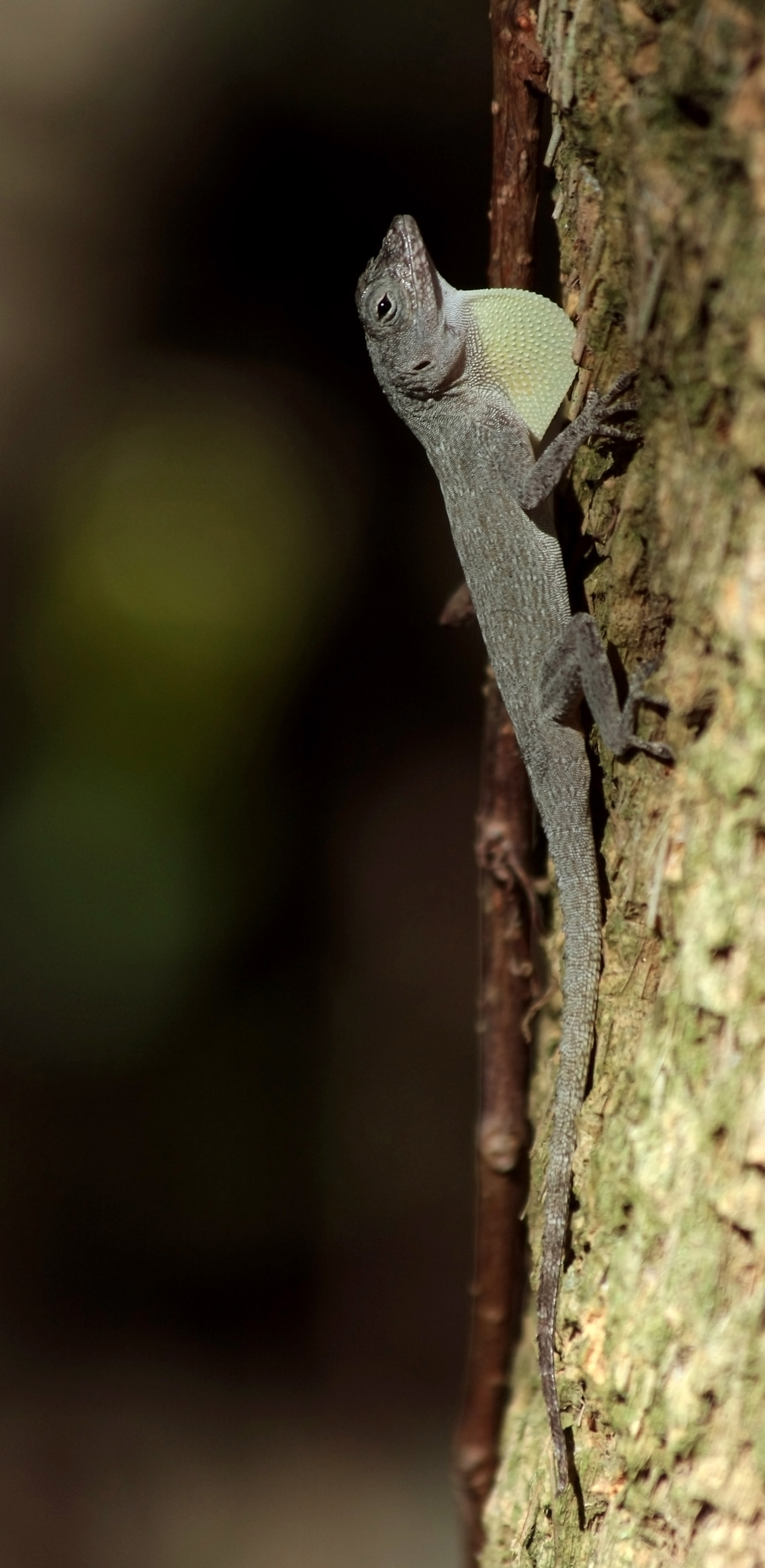 A male bark anole (Anolis distichus) extending his dewlap.